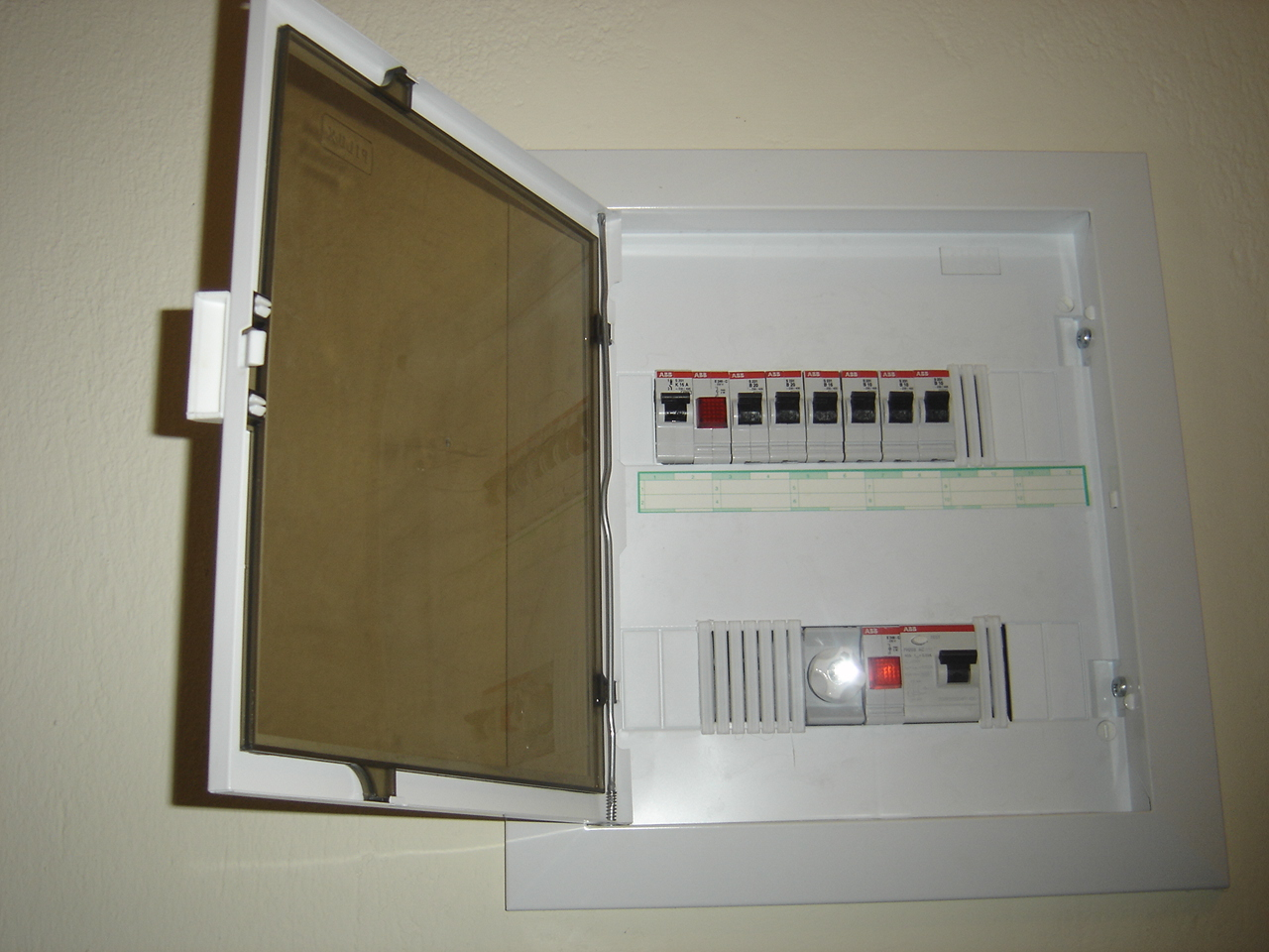 An electrical installation box.